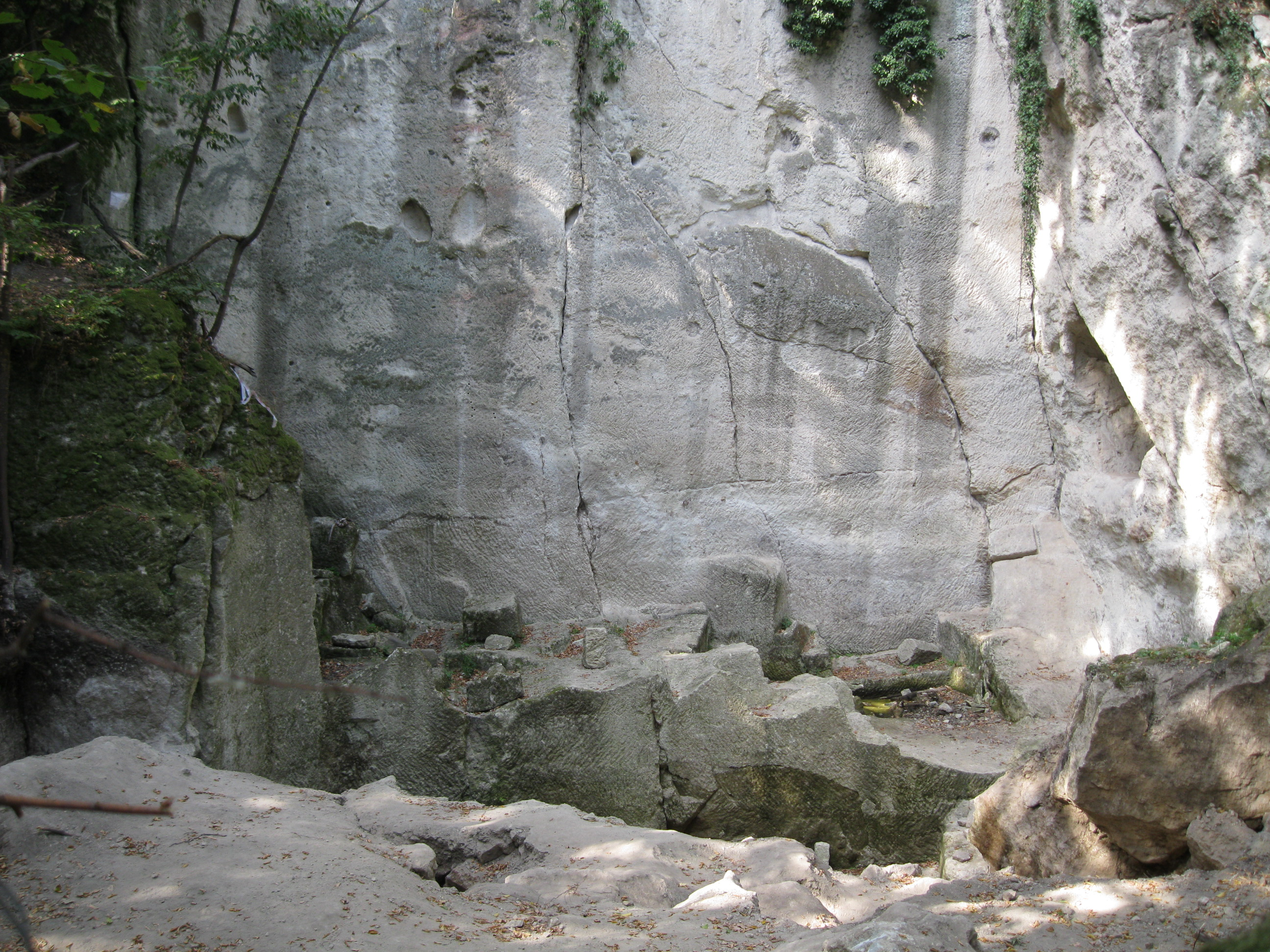 The Nagy-szikla (Big Rock) in Holdvilág Trench